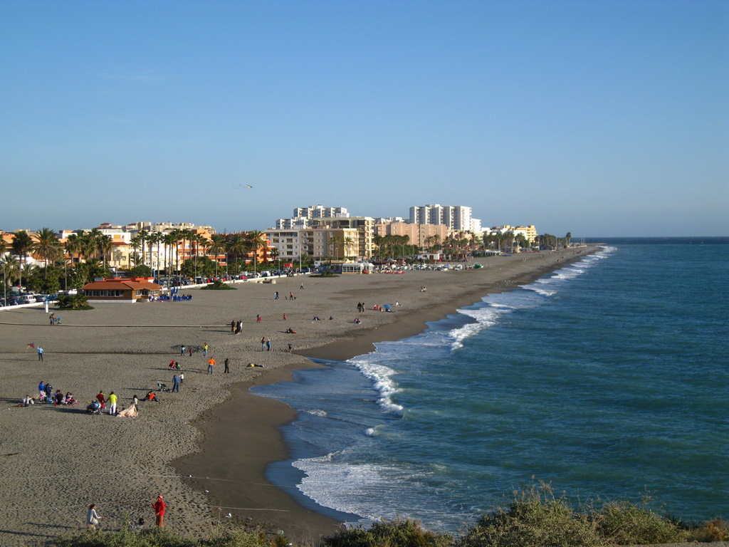 Beach in Salobreña, Spain.